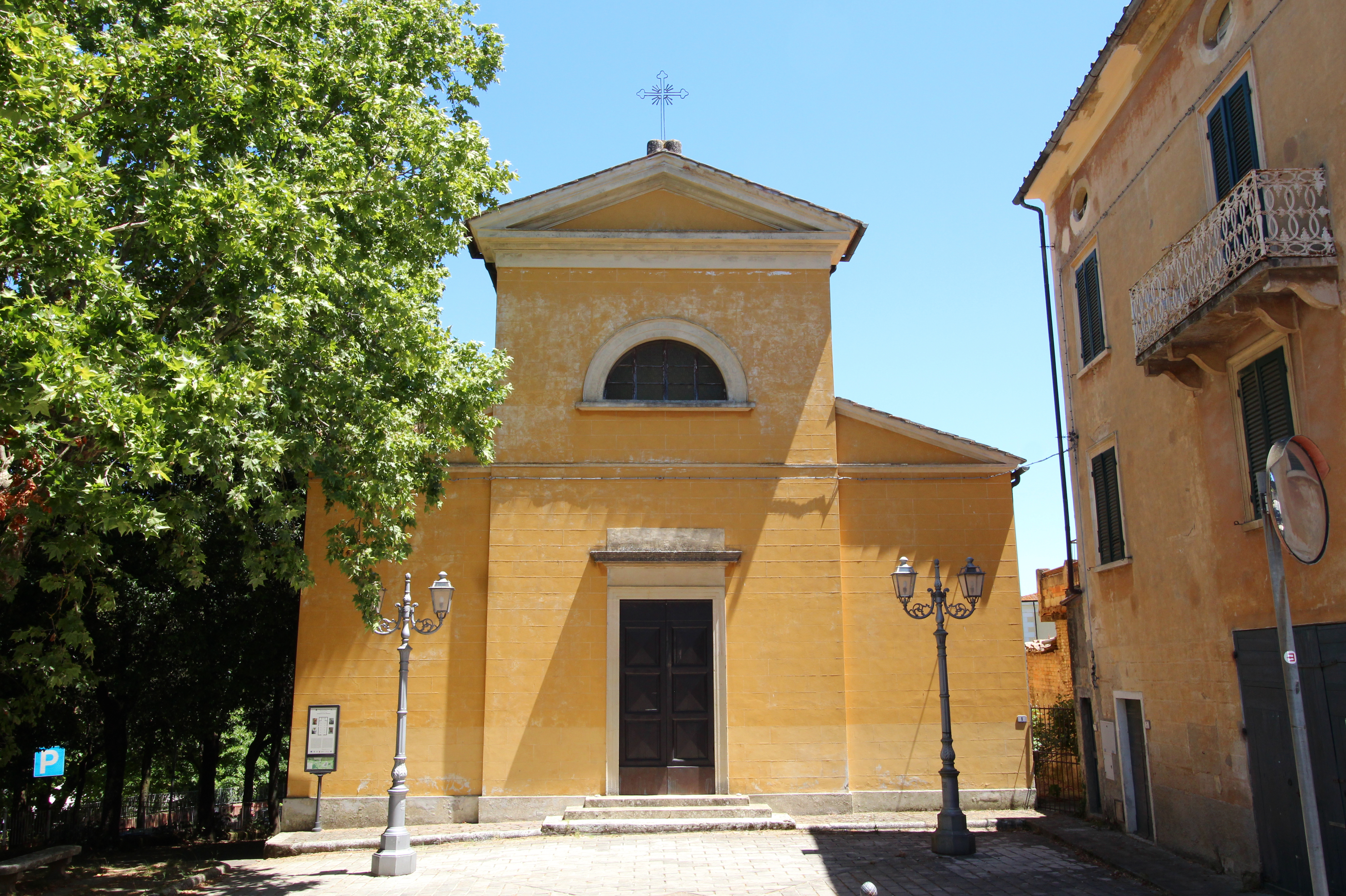 Church San Marino in Petraia (also San Martino in Petraija), Casciana Terme, hamlet of Casciana Terme Lari, Province of Pisa, Tuscany, Italy